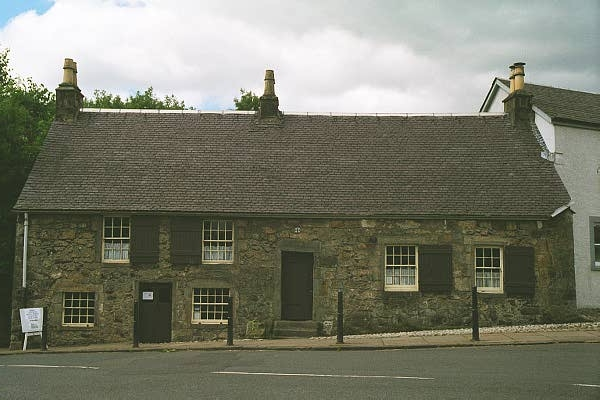 National Trust Weaver's Cottage: Kilbarchan. The cottage is situated in the centre of the village and has an interesting exhibition of how paisley shawls were produced. It is in the south western corner of the square.